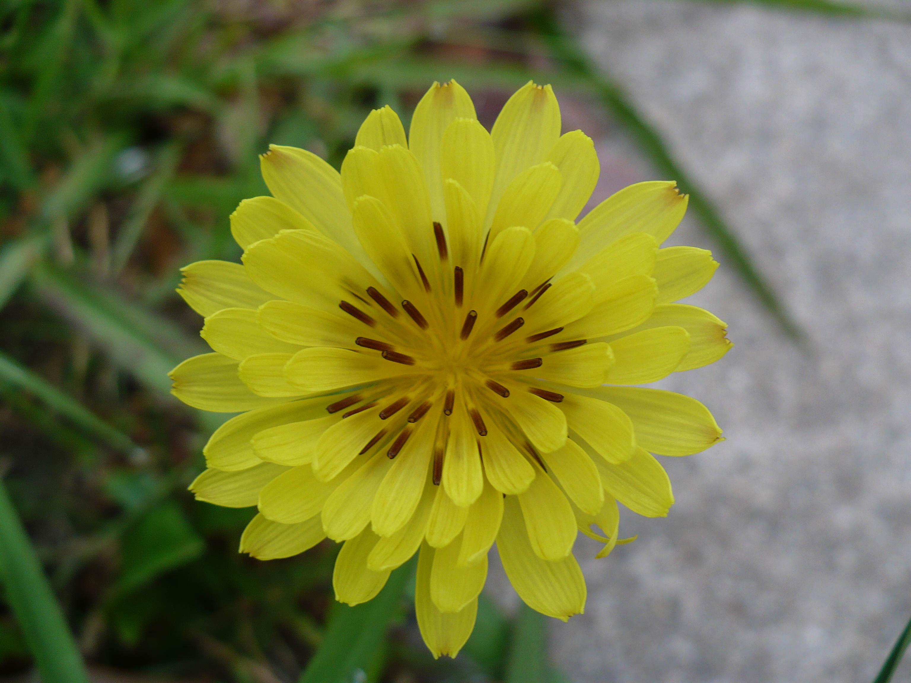 Texas Dandelion, or false dandelion (Pyrrhopappus Multicaulis)